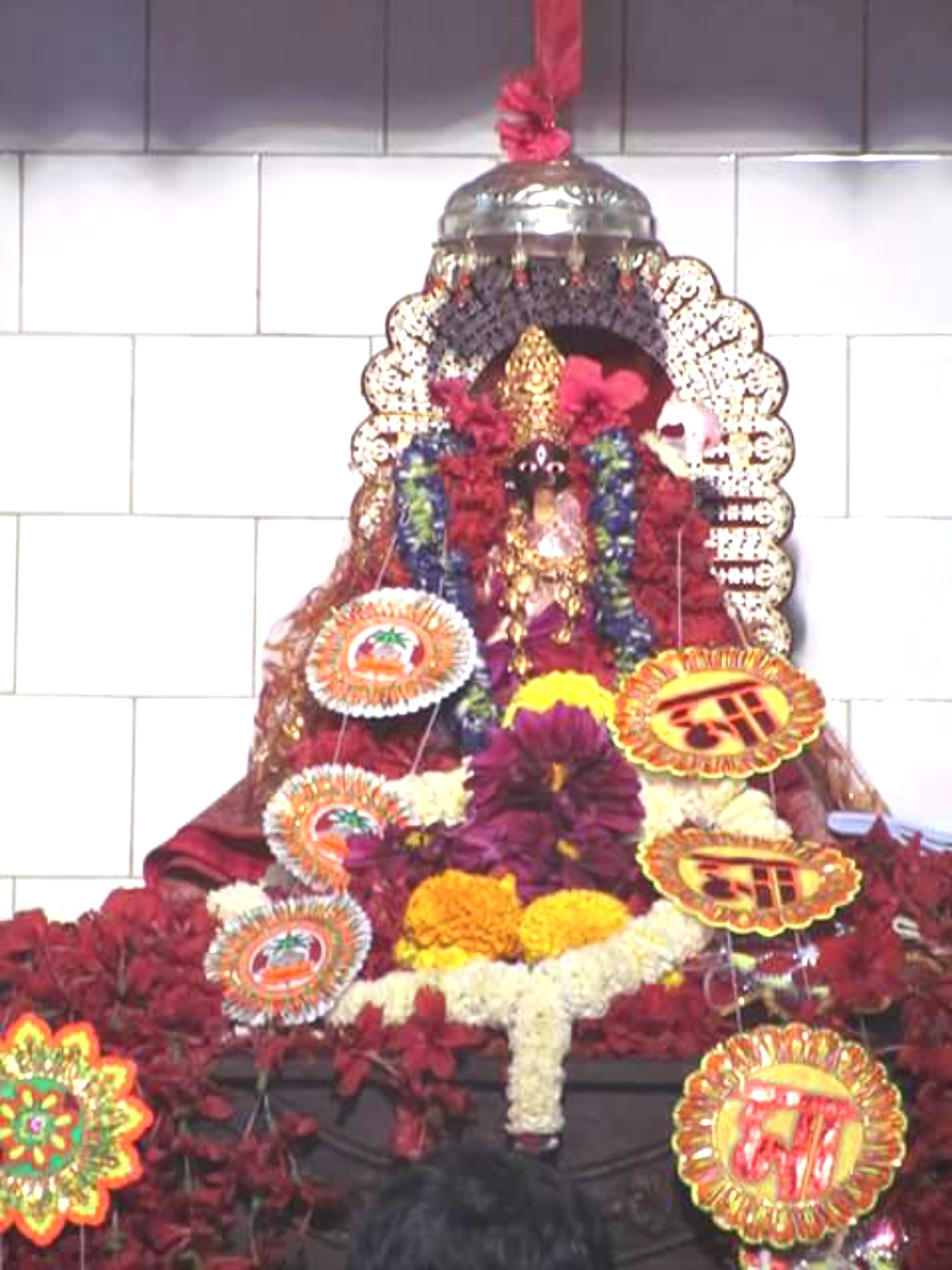 Anandamayi Kali Maa at jagatnagarkalibari